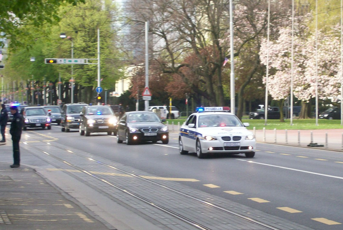 US President Bush in Zagreb